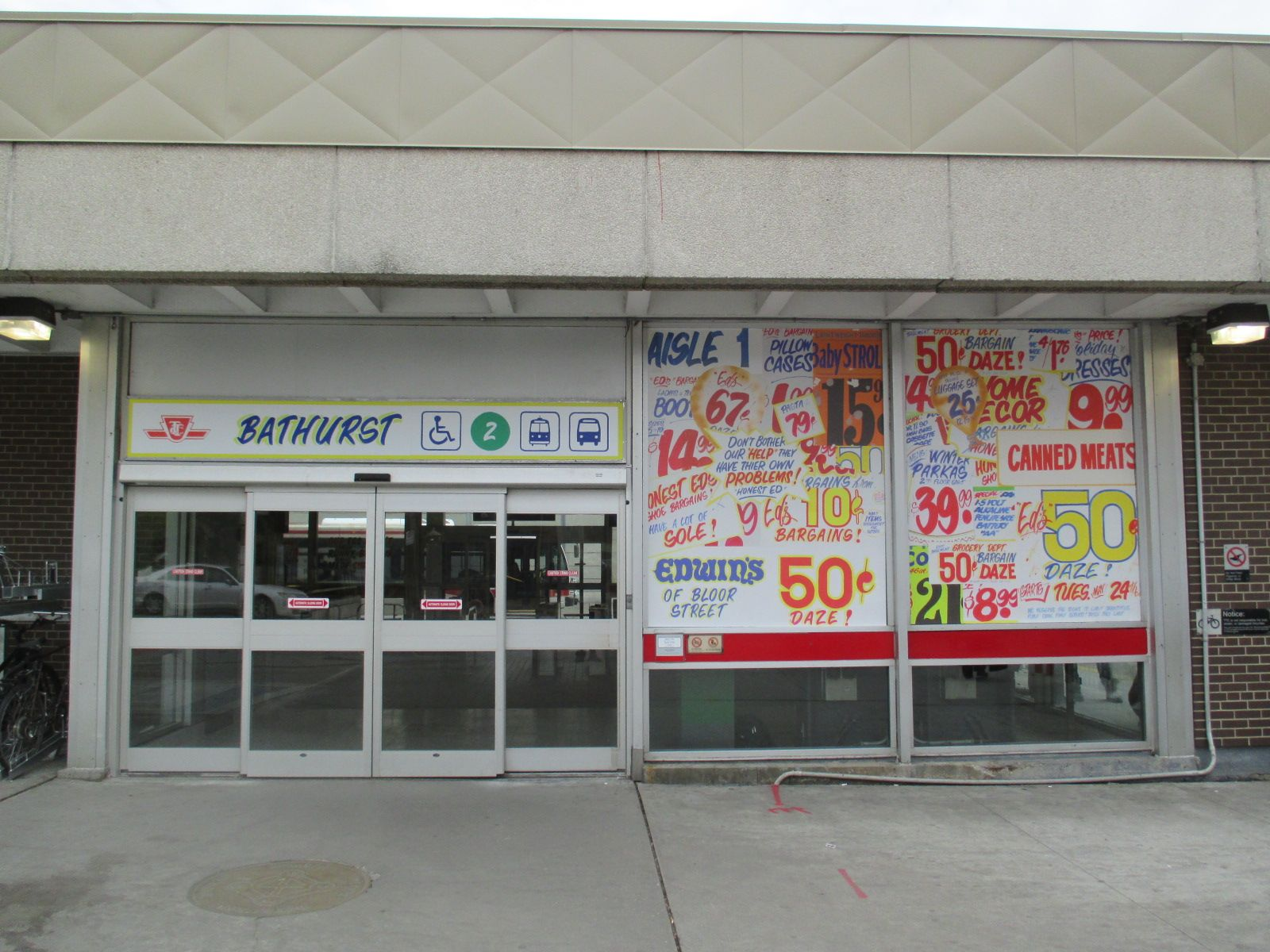 The Toronto Transit Commission created a tribute to Honest Ed's at Bathurst subway station. It was on display from November to December 2016. Honest Ed's closed at the end of December 2016.